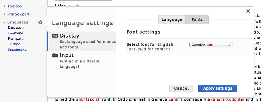 ULS screenshot illustrating that a dyslexic user selects “OpenDyslexic” font for a better reading experience.